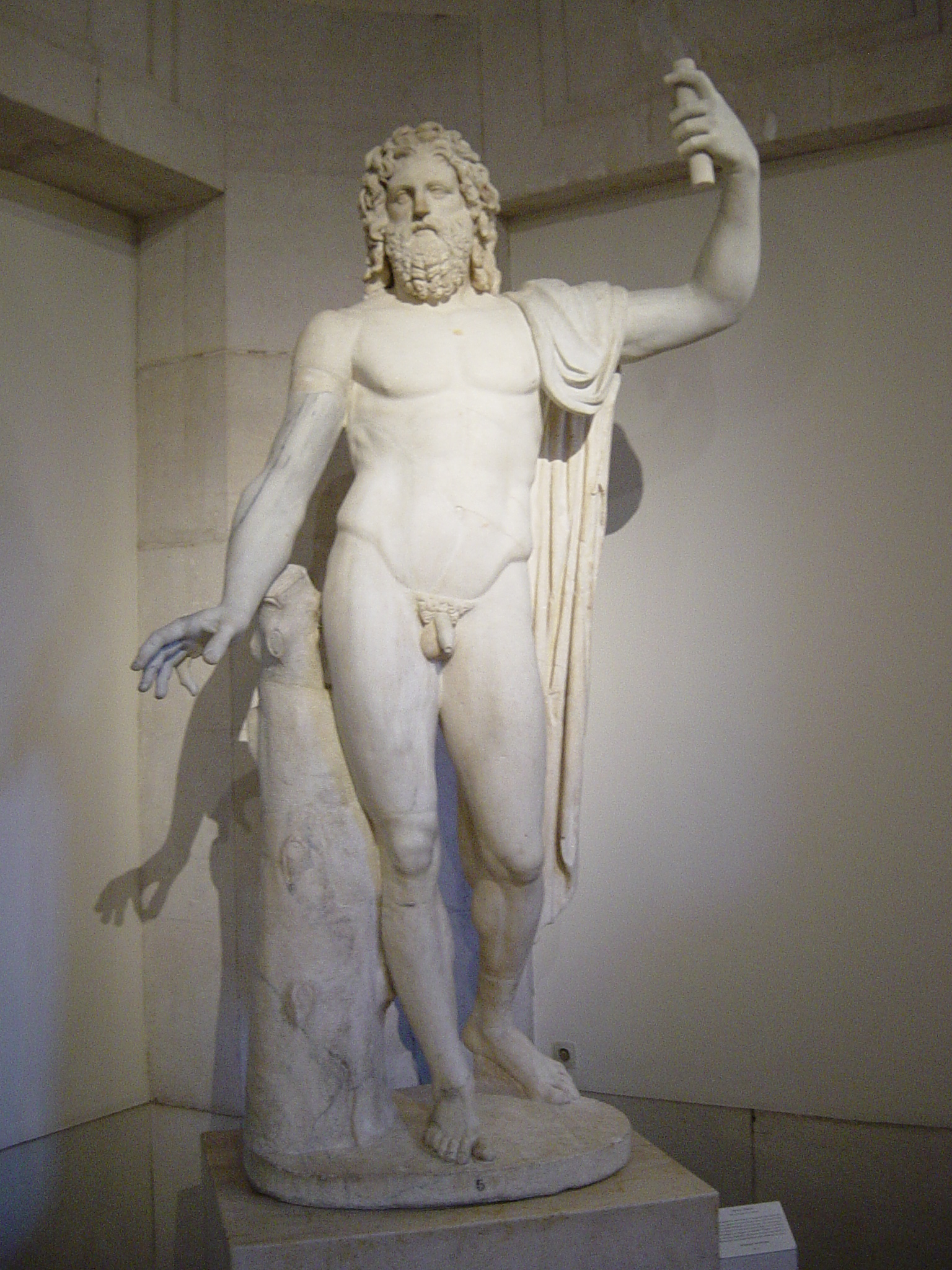 Sculpture of Jupiter Tonans at Museo del Prado (Madrid, Spain).